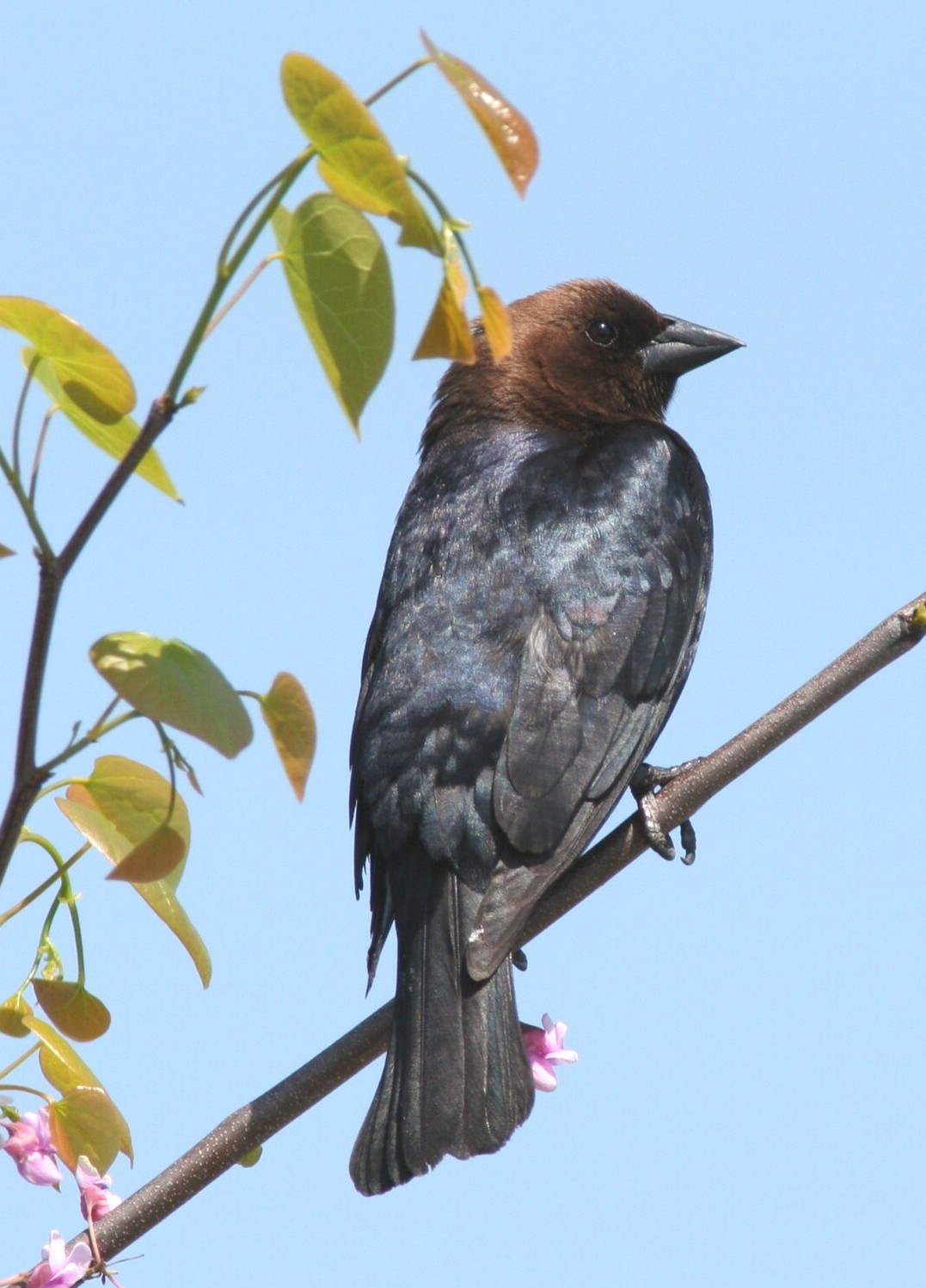 Male Brown-headed Cowbird - Jan Malik, May 2007